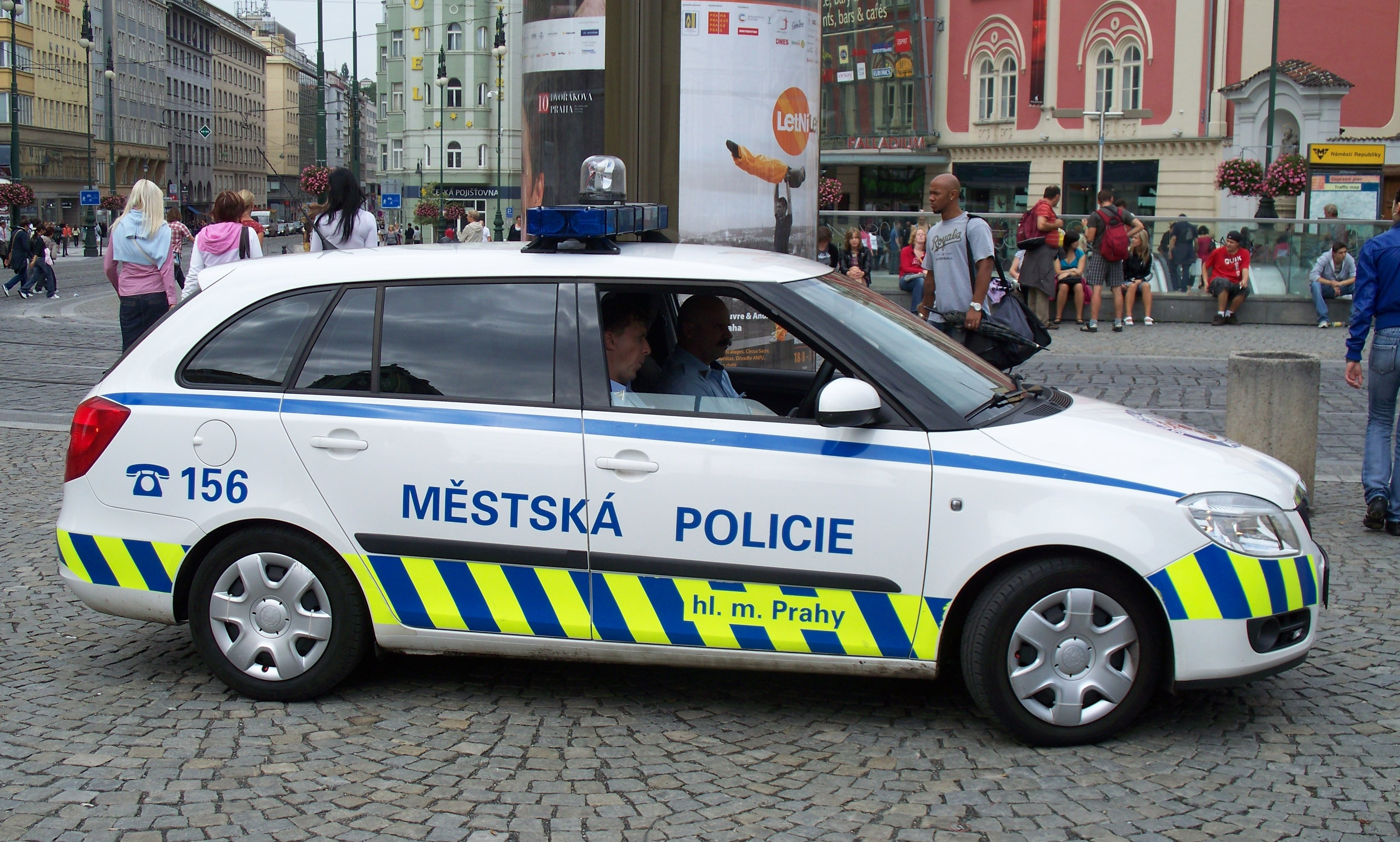 Prague city police Škoda Fabia Mk2 Combi in the Czech Republic.